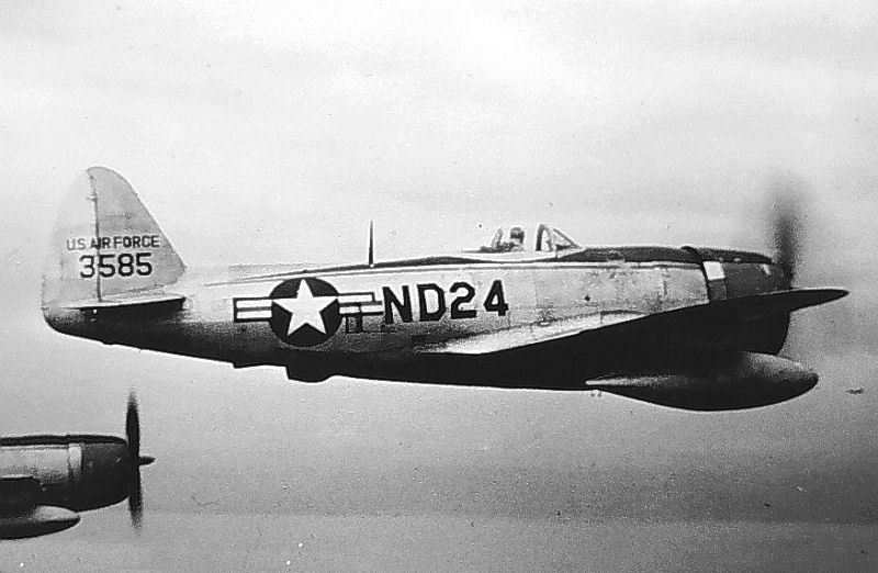 86th Fighter Group Republic F-47D-30-RA Thunderbolt 44-33585